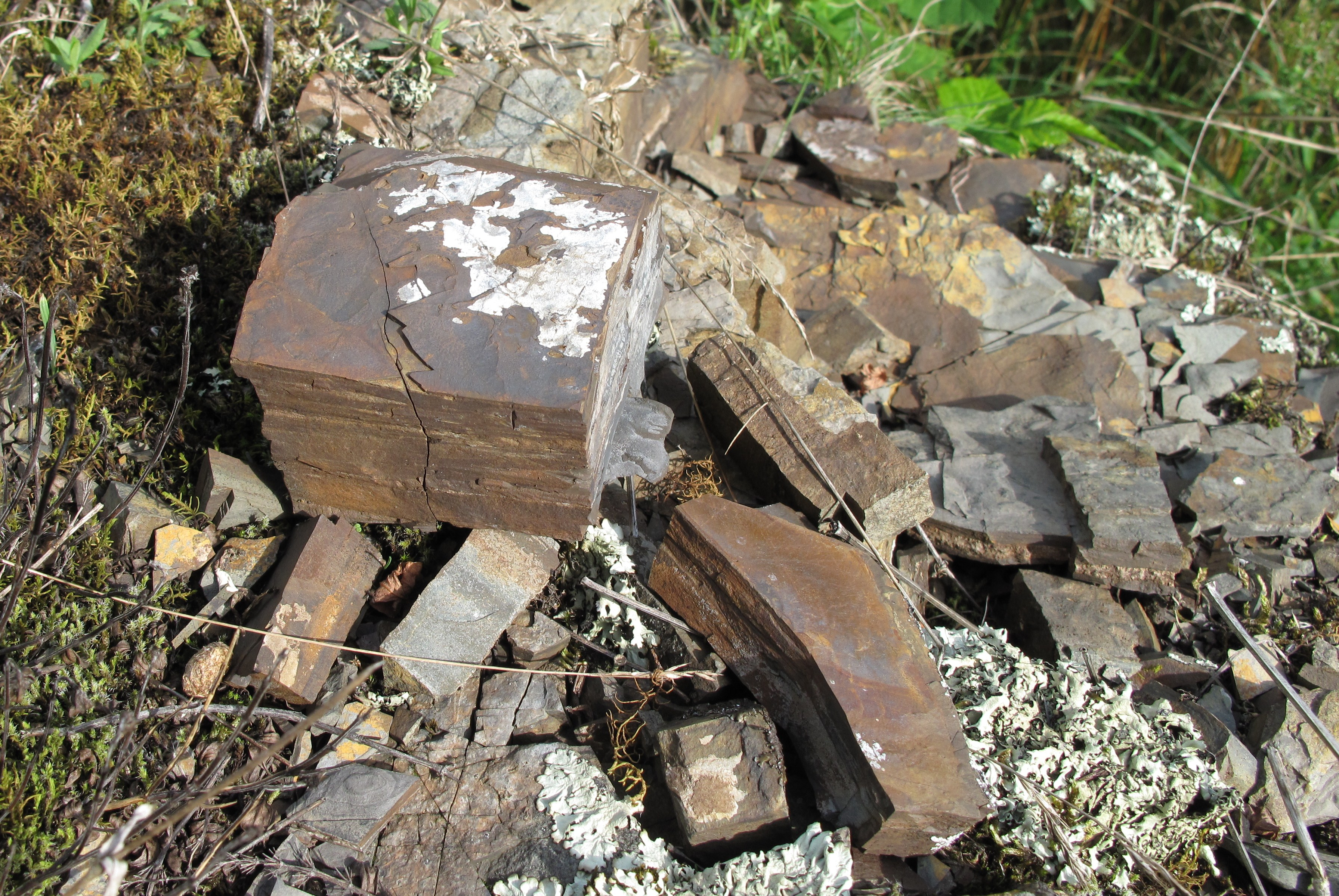 Slate in natural monument Štěpánský rybník as seen from the north, Rokycany District, Czech Republic.